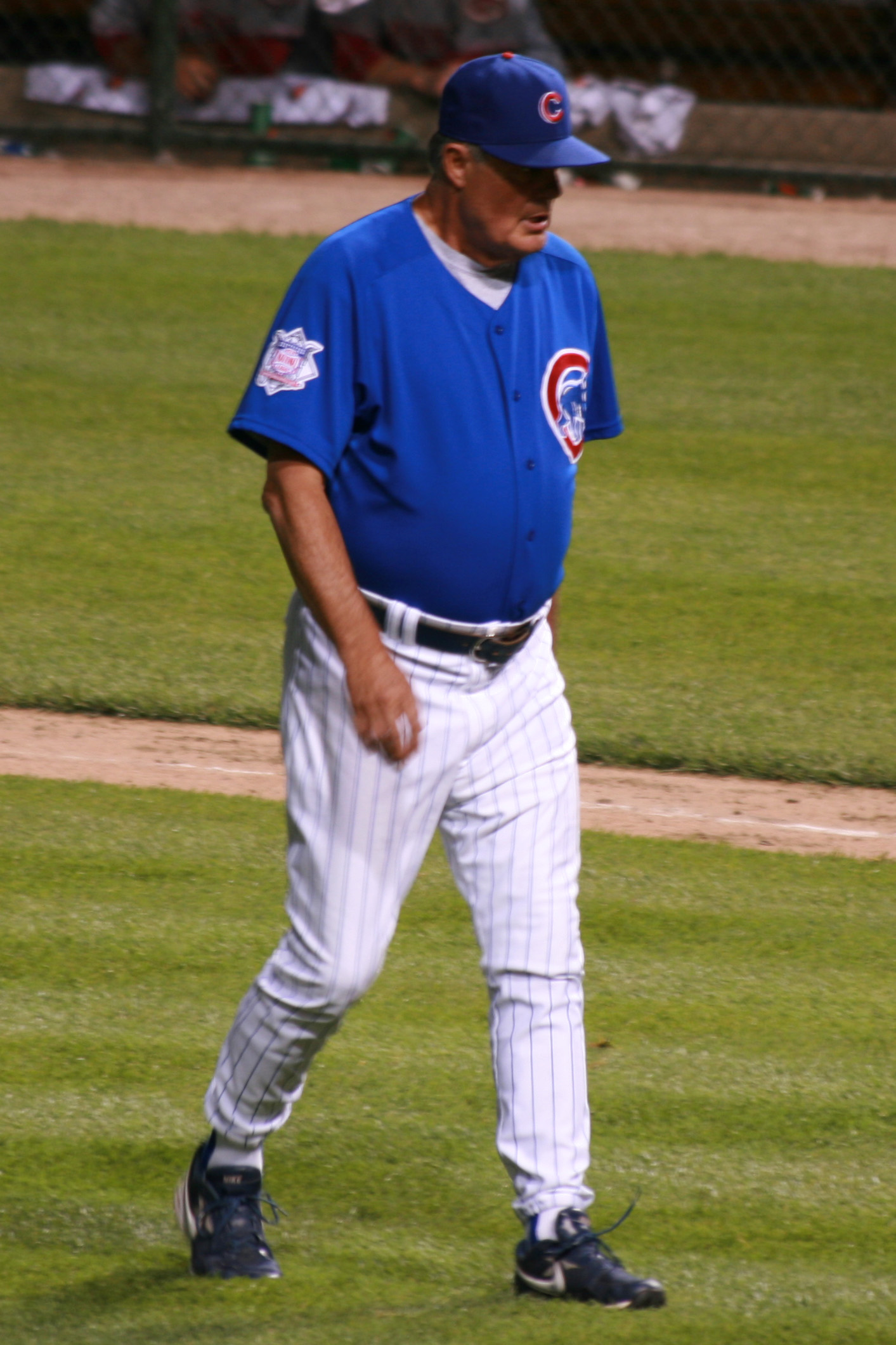 Lou Piniella, manager of the Chicago Cubs, walking away from an umpire after a discussion (cropped).